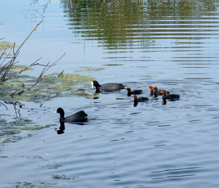 Fulica atra in the pond at the Trascianka river (border of Minsk and Maly Trascianiec village, Belarus)